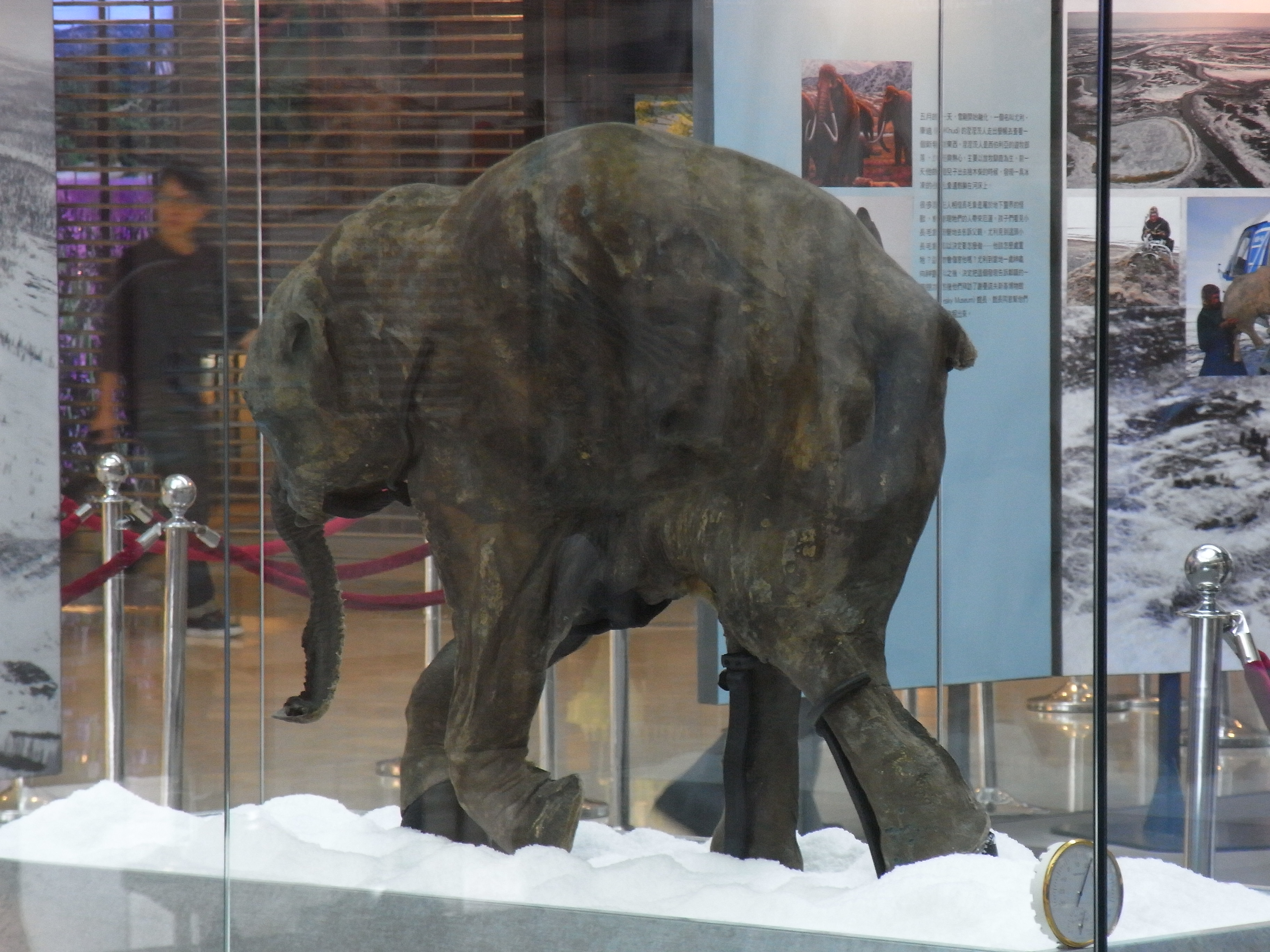 Exhibit at the IFC Mall, Central, Hong Kong in April, 2012